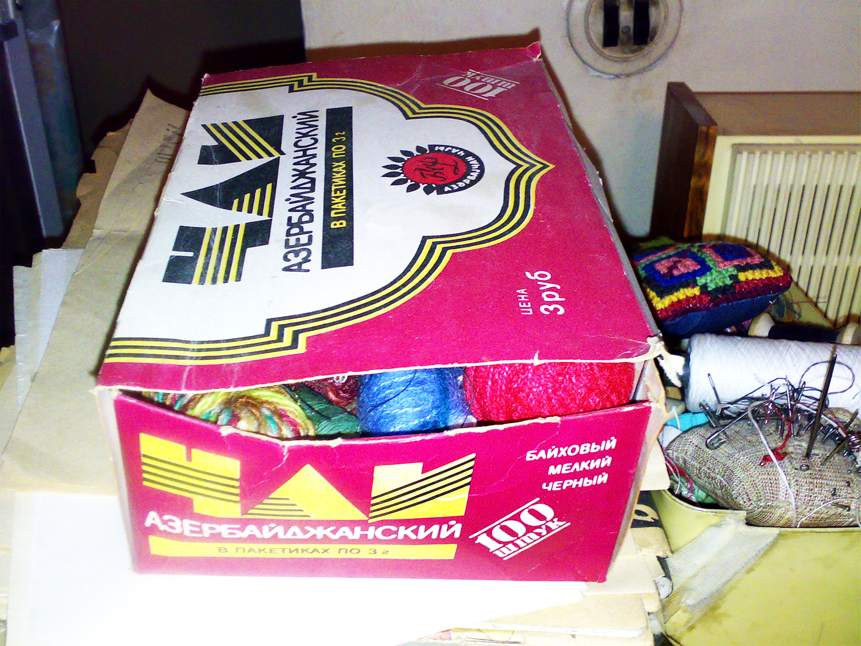 A box of Azerbaijanian tea, 1980s